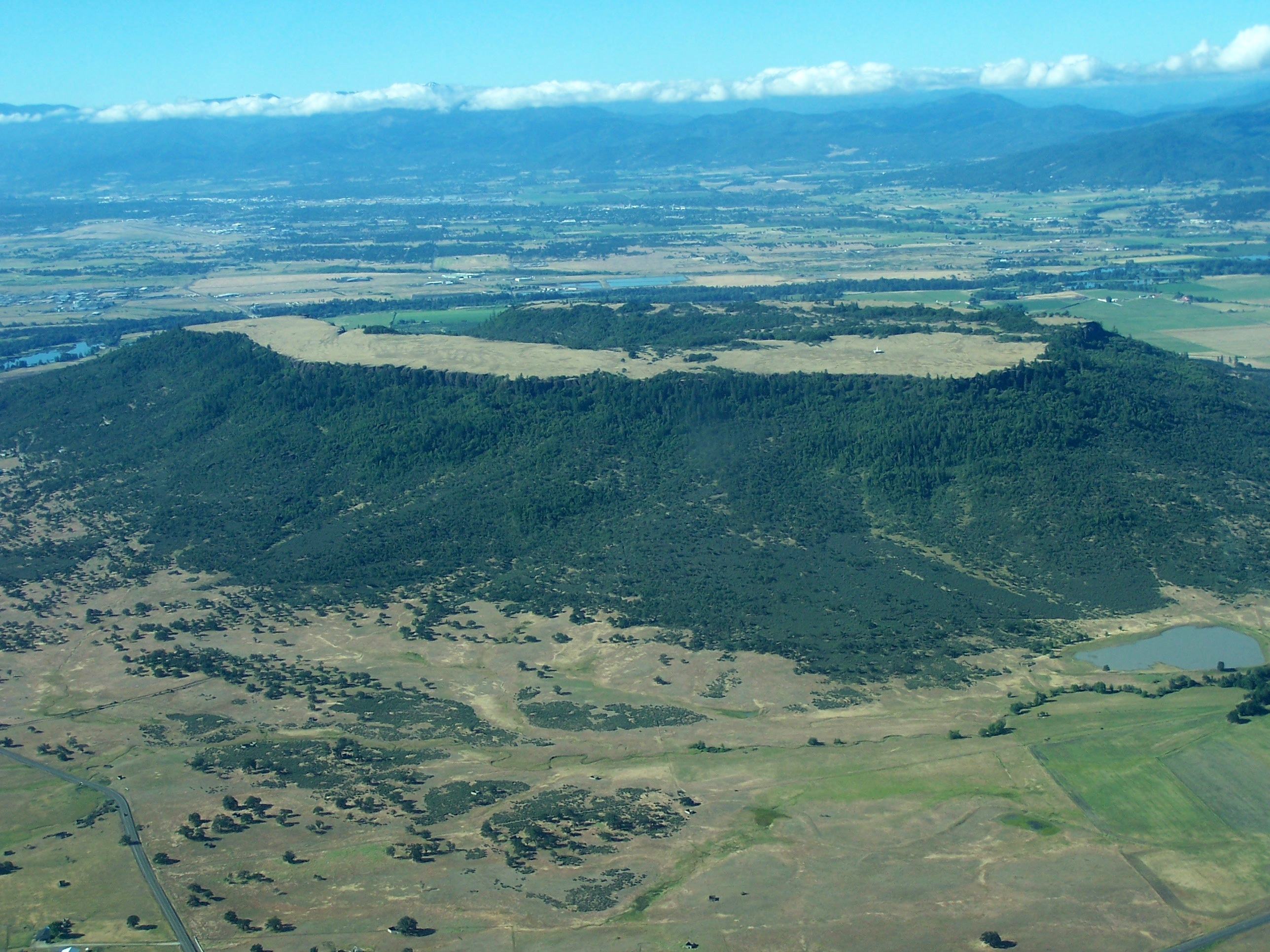 An aerial image of Upper Table Rock.